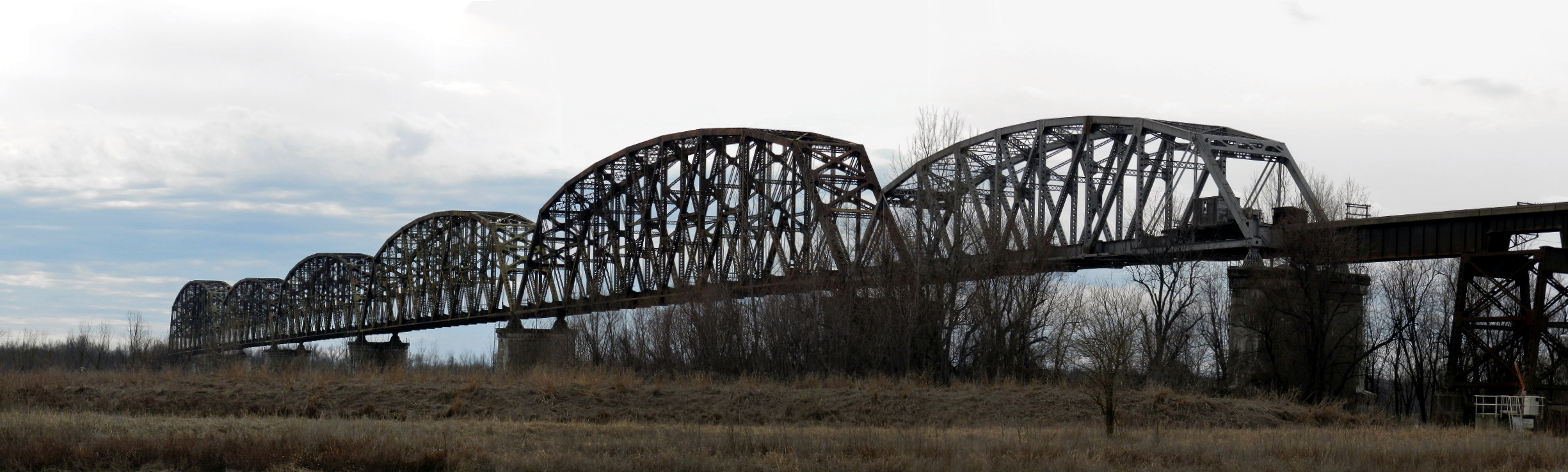 Metropolis Bridge, a railroad bridge which spans the Ohio River at Metropolis, Illinois.